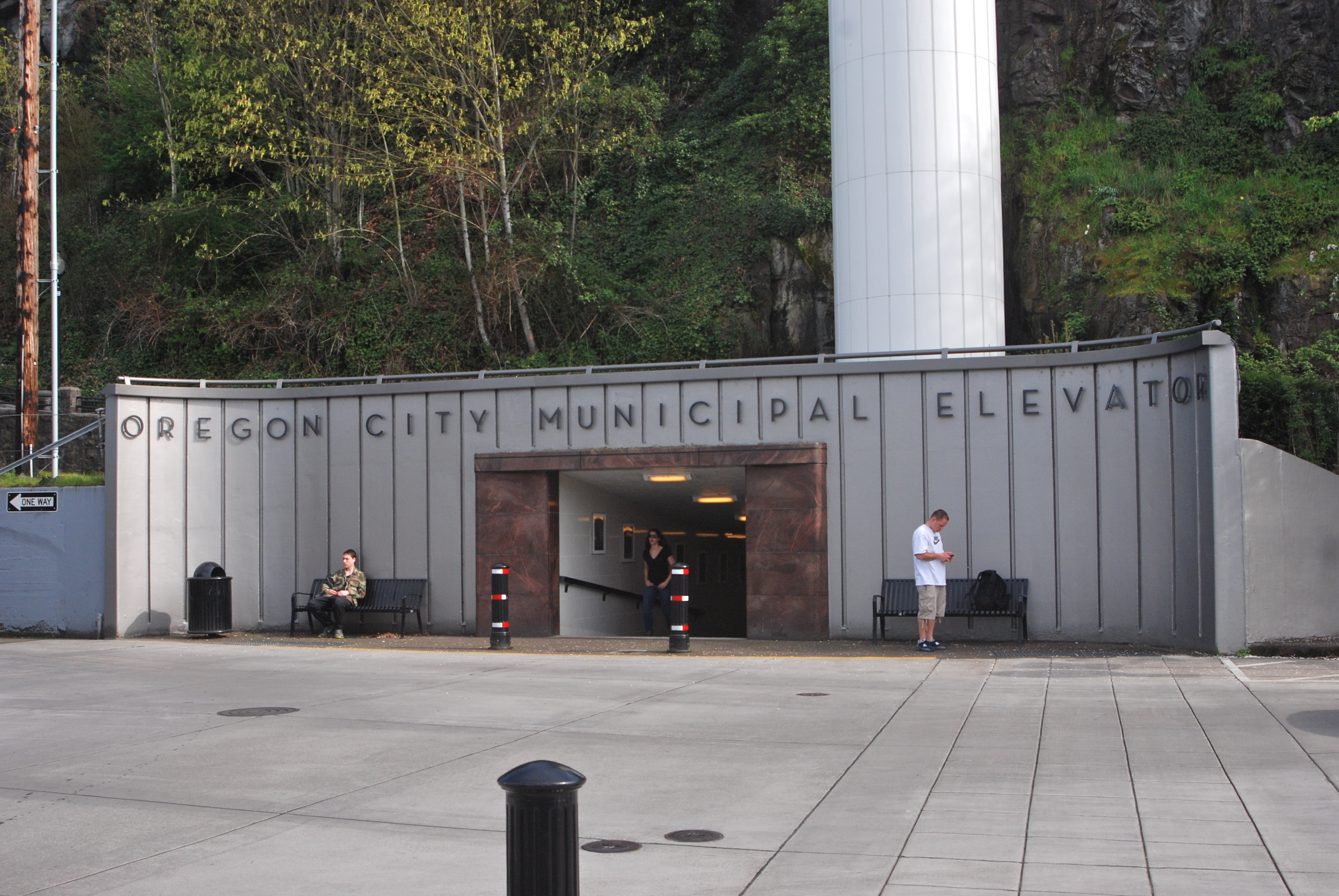 The lower entrance to the Oregon City Municipal Elevator is located at the intersection of 7th Street and Railroad Avenue. A tunnel leads to the entrance to the actual elevator itself.